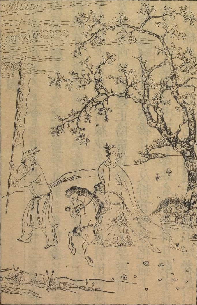 Ding Xian, zhuangyuan of the Ming Dynasty.